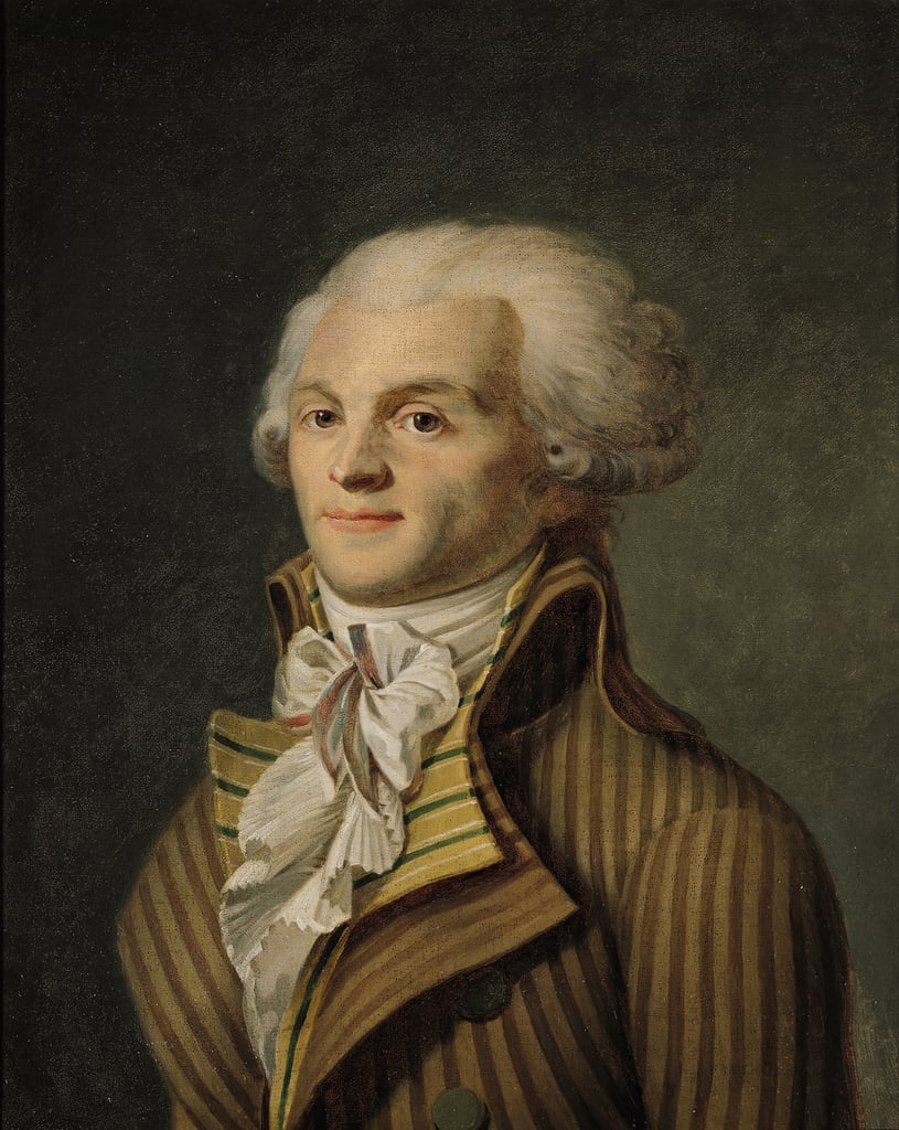 Portrait of Maximilien Robespierre (1758-1794)